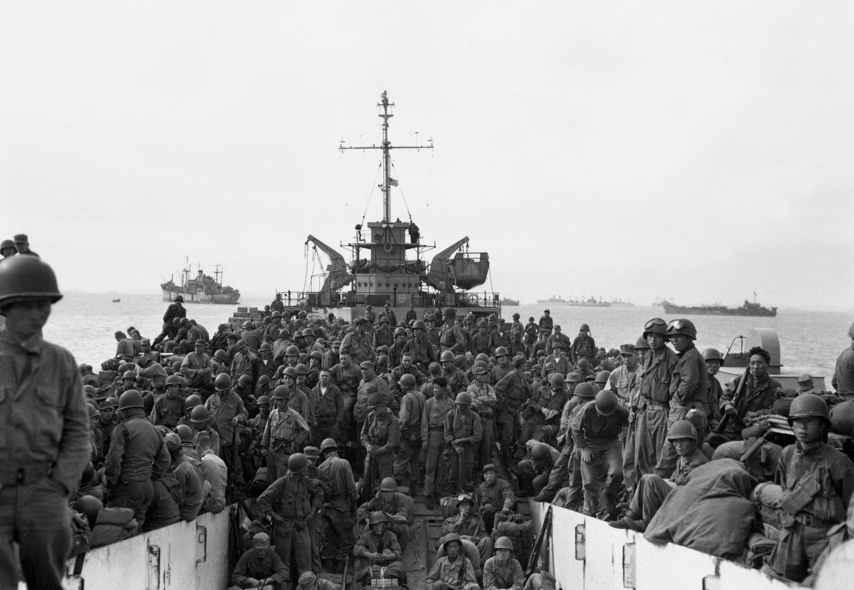 Troops of the 31st Inf. Regt. land at Inchon Harbor, Korea, aboard LST's. September 18, 1950. Hunkins. (Army) NARA FILE #: 111-SC-363216 WAR & CONFLICT BOOK #: 1383